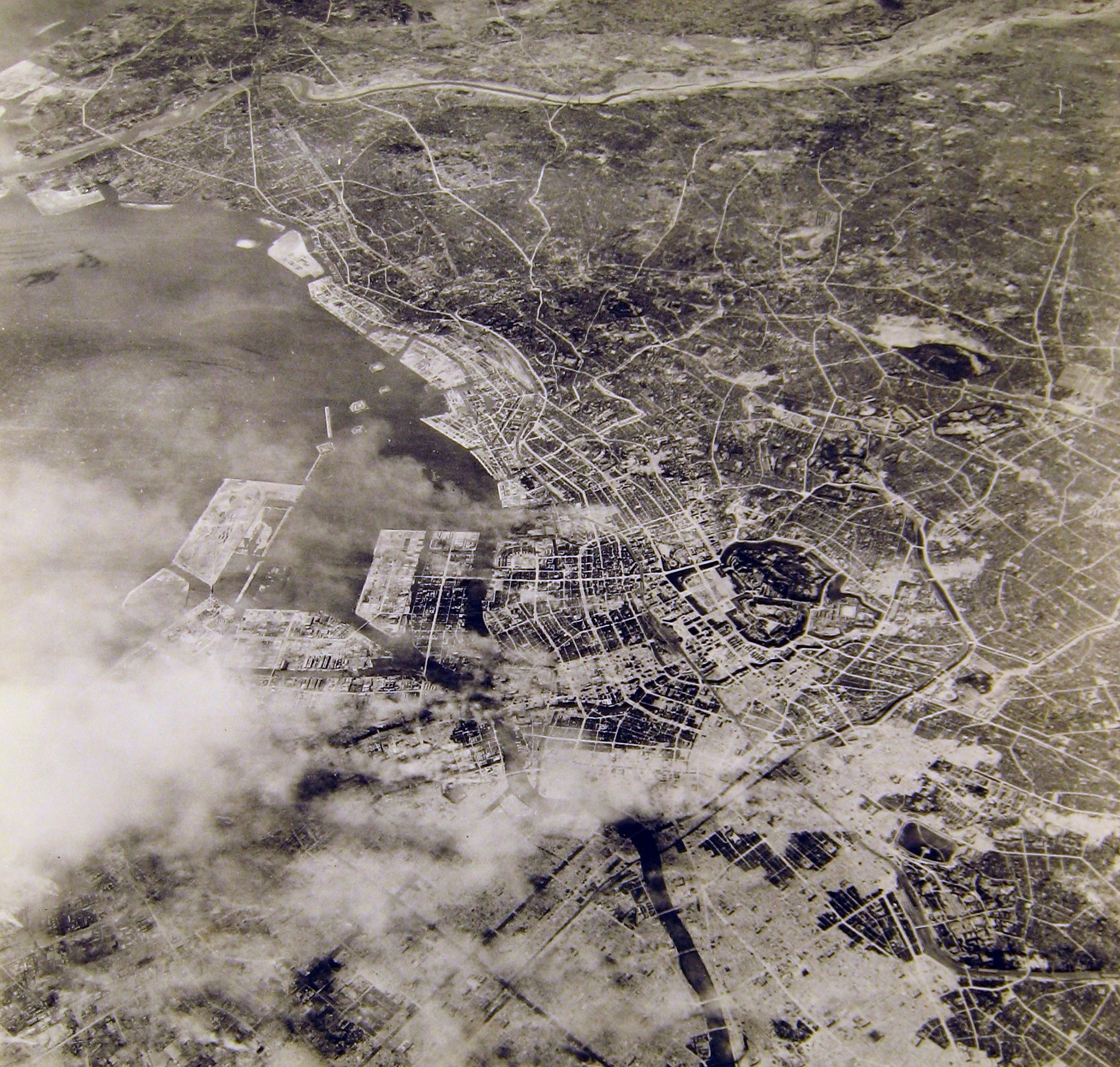 A photograph taken from a United States Army Air Forces aircraft showing the damaged caused by the firebombing raid on Tokyo on the night of 9/10 March 1945